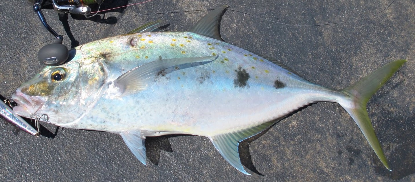 Yellowspotted trevally taken from Shark Bay